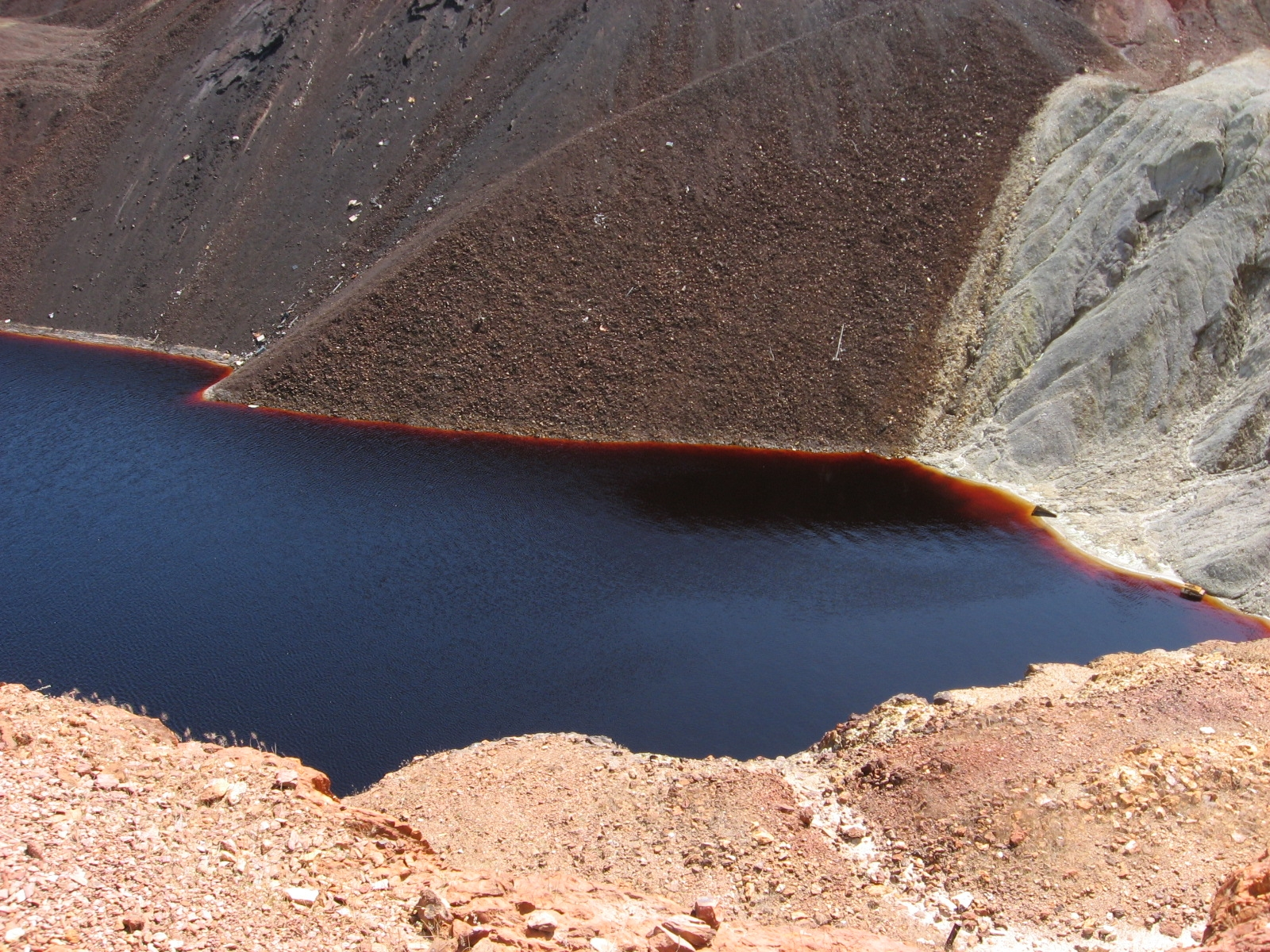 Mina de Sao Domingos, 15 km north of Mertola (Portugal)